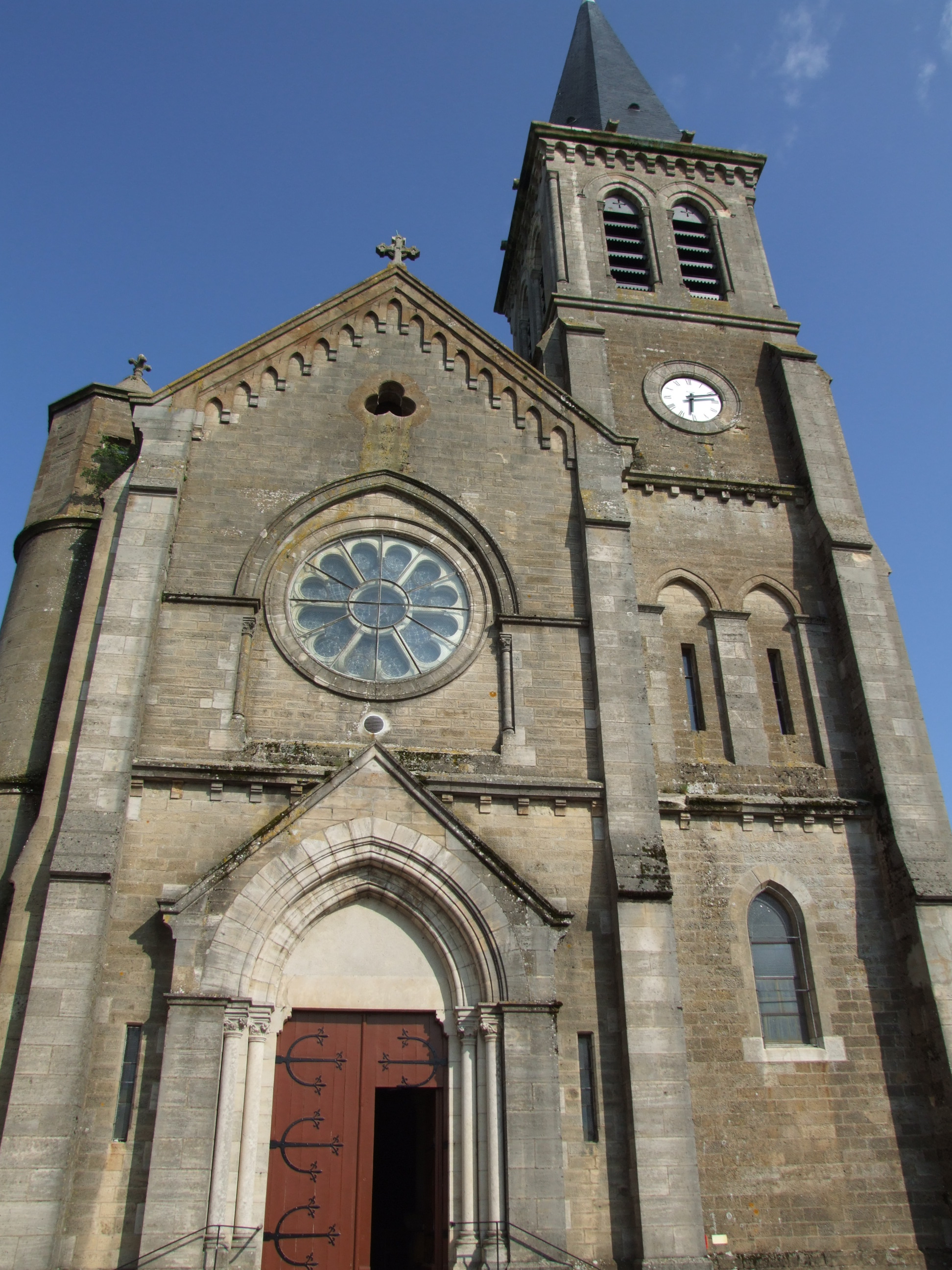 Château-Chinon (Ville), Nievre, Burgundy, FRANCE